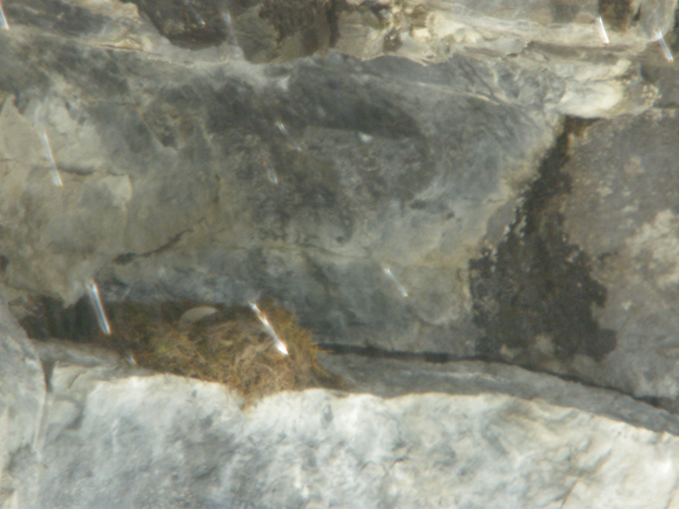 Black Swift nest with egg, Glacier NP, July 5, 2012